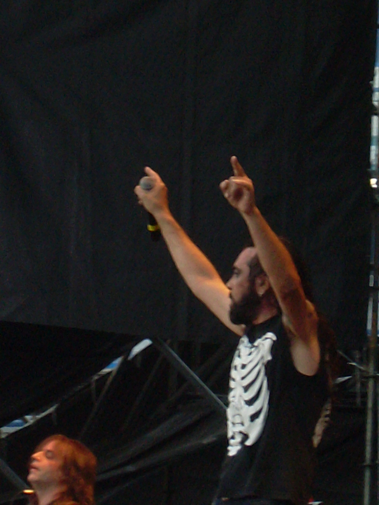 Claudio O'Connor (O'Connor) During his performance at Quilmes Rock 2009